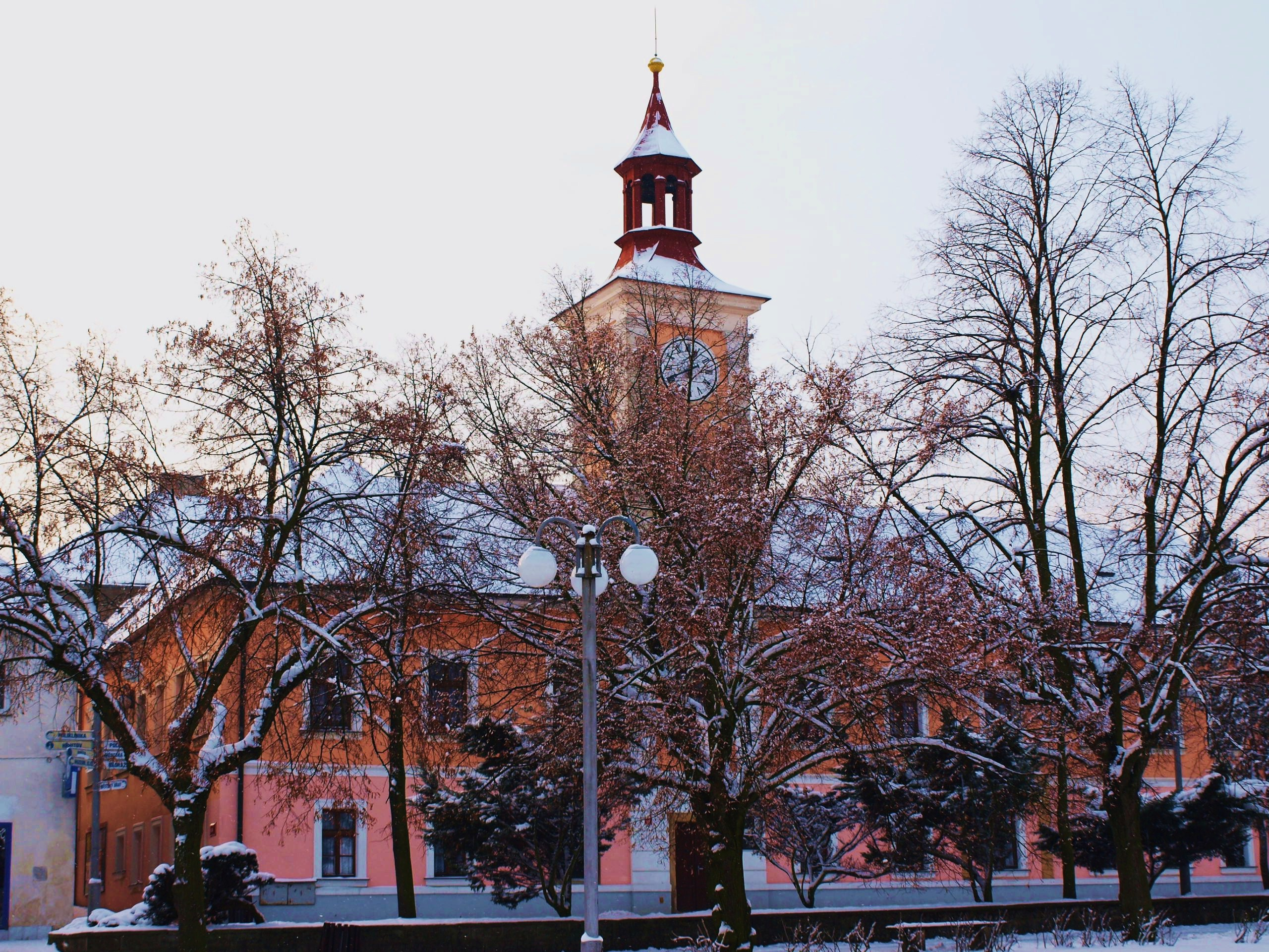 Former Town Hall in Nové Strašecí, Czechia